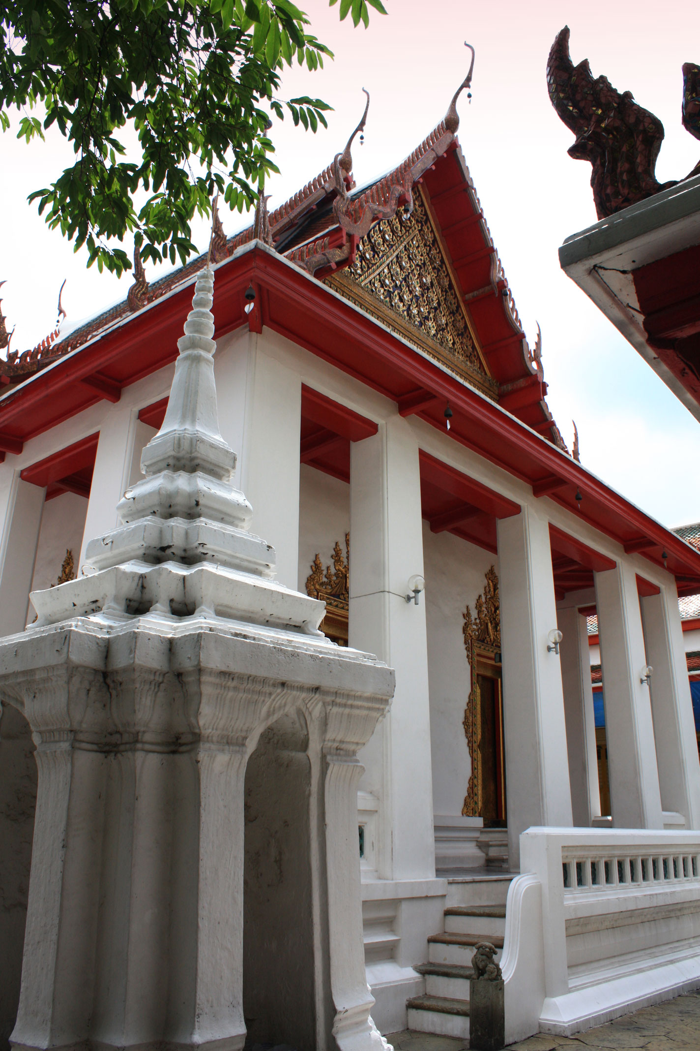 Wat Anongkharam Worawihan, Khlong San district, Bangkok